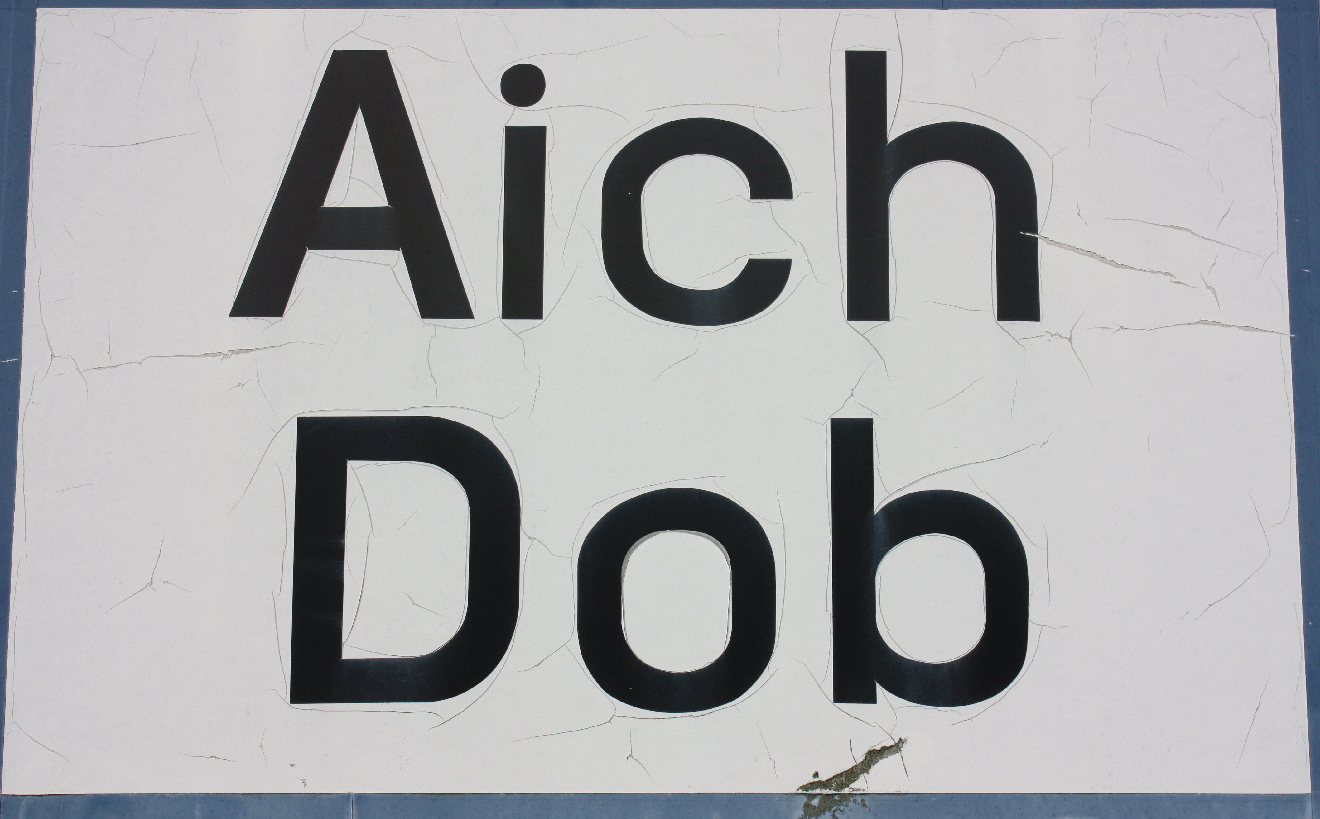 Bilingual city limit sign Locality: Aich (Dob) Community:Bleiburg